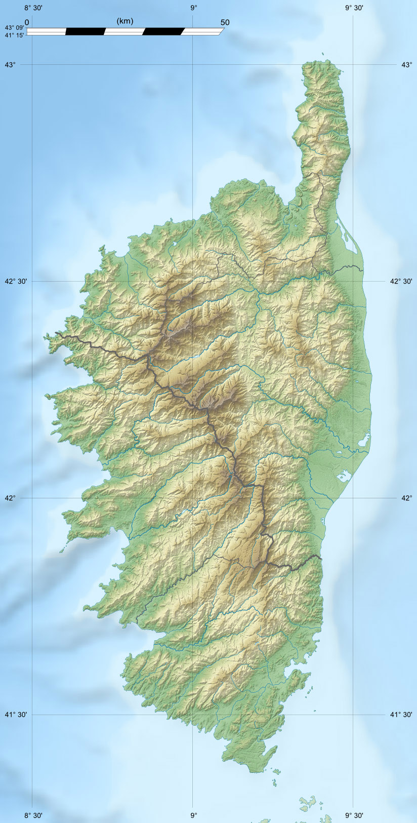 Blank physical map of the region of Corsica, France, for geo-location purpose, with distinct boundaries for departments and arrondissements as they are since January 2010.The former version of the map shows the boundaries as they were until December 2009.